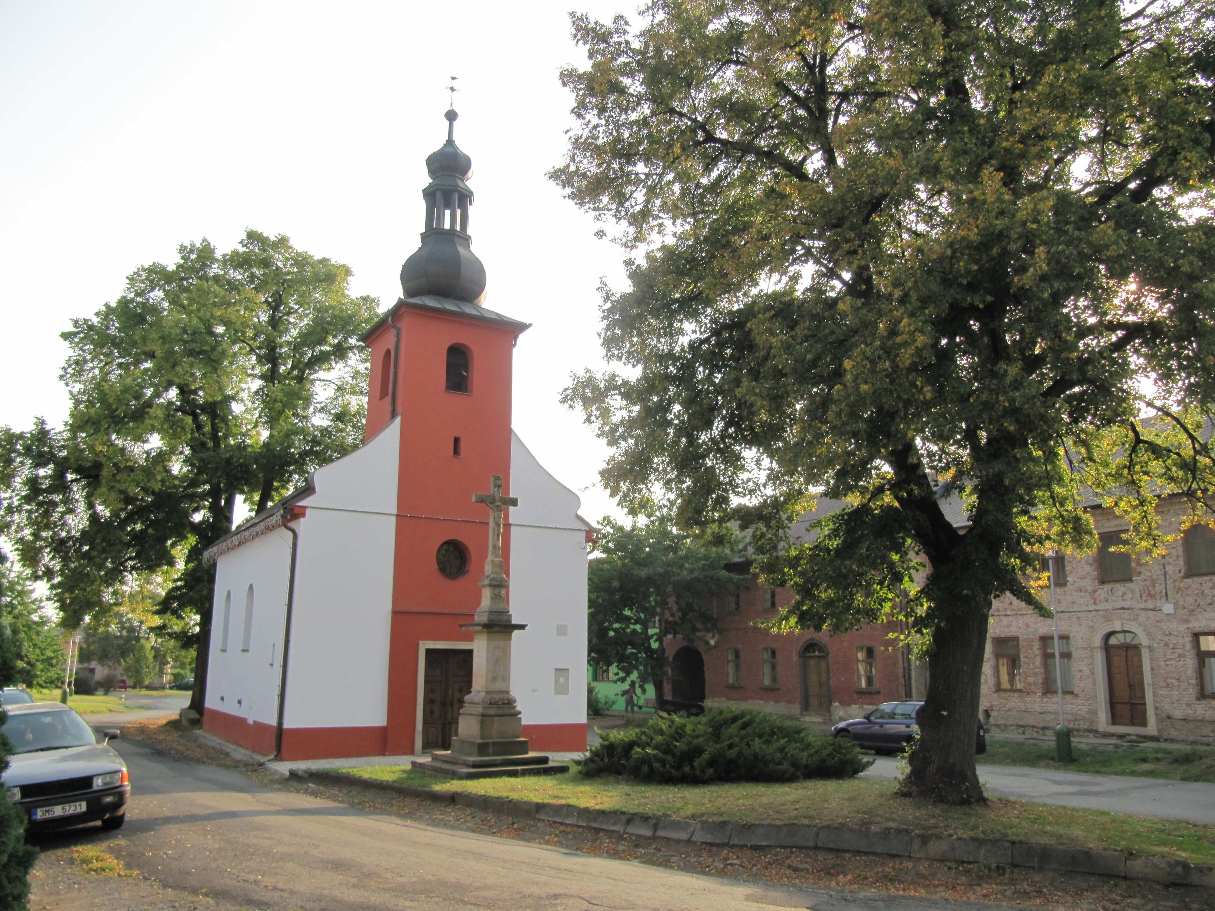 Ústín in Olomouc District, Czech Republic. Chapel of St. John and St. Paul from 1861 on the village green.